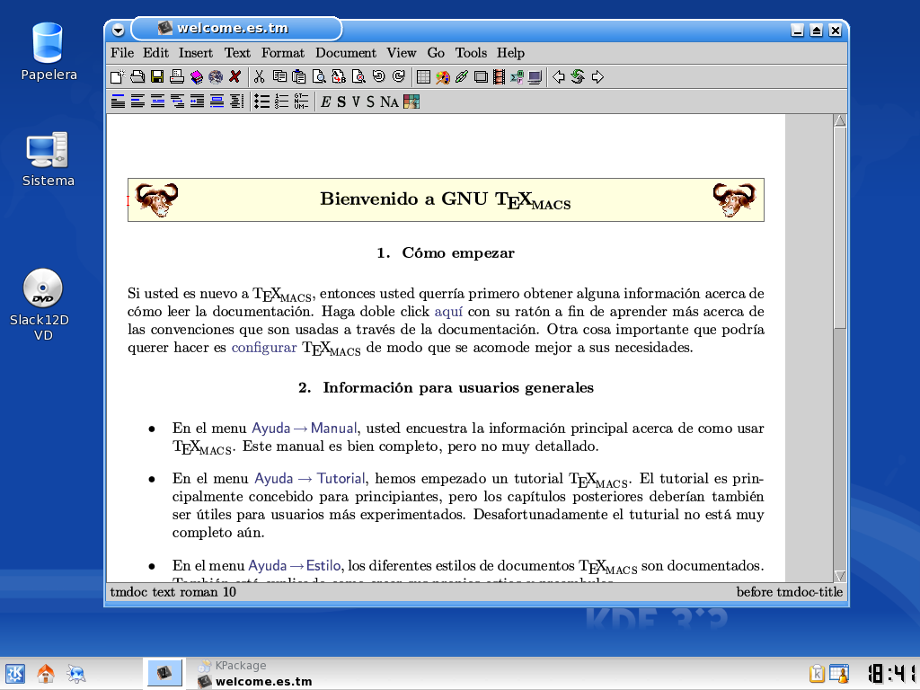 Texmacs on Slackware 12. Spanish text in window.